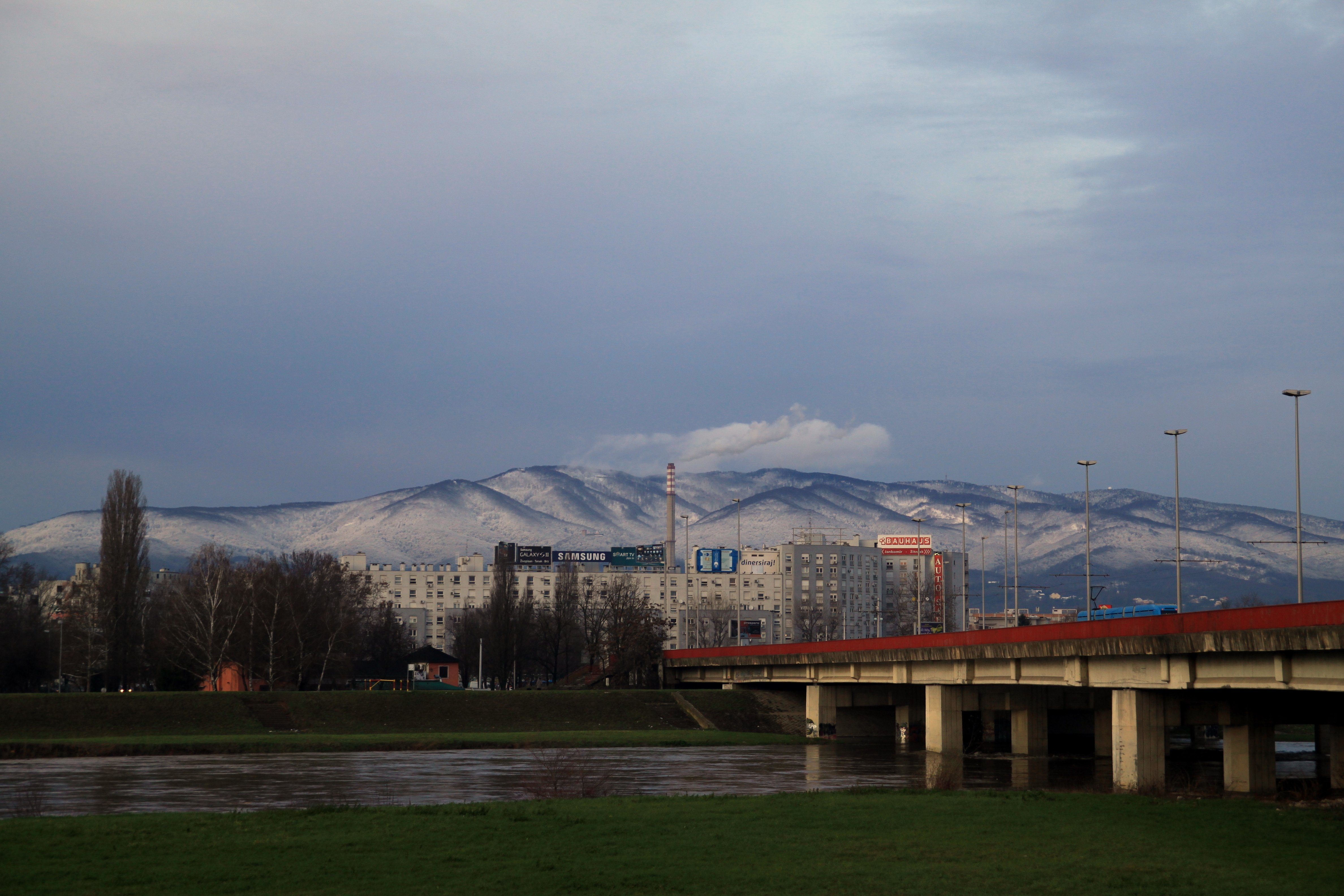 Snow on Medvednica, view from the river Sava in Zagreb.